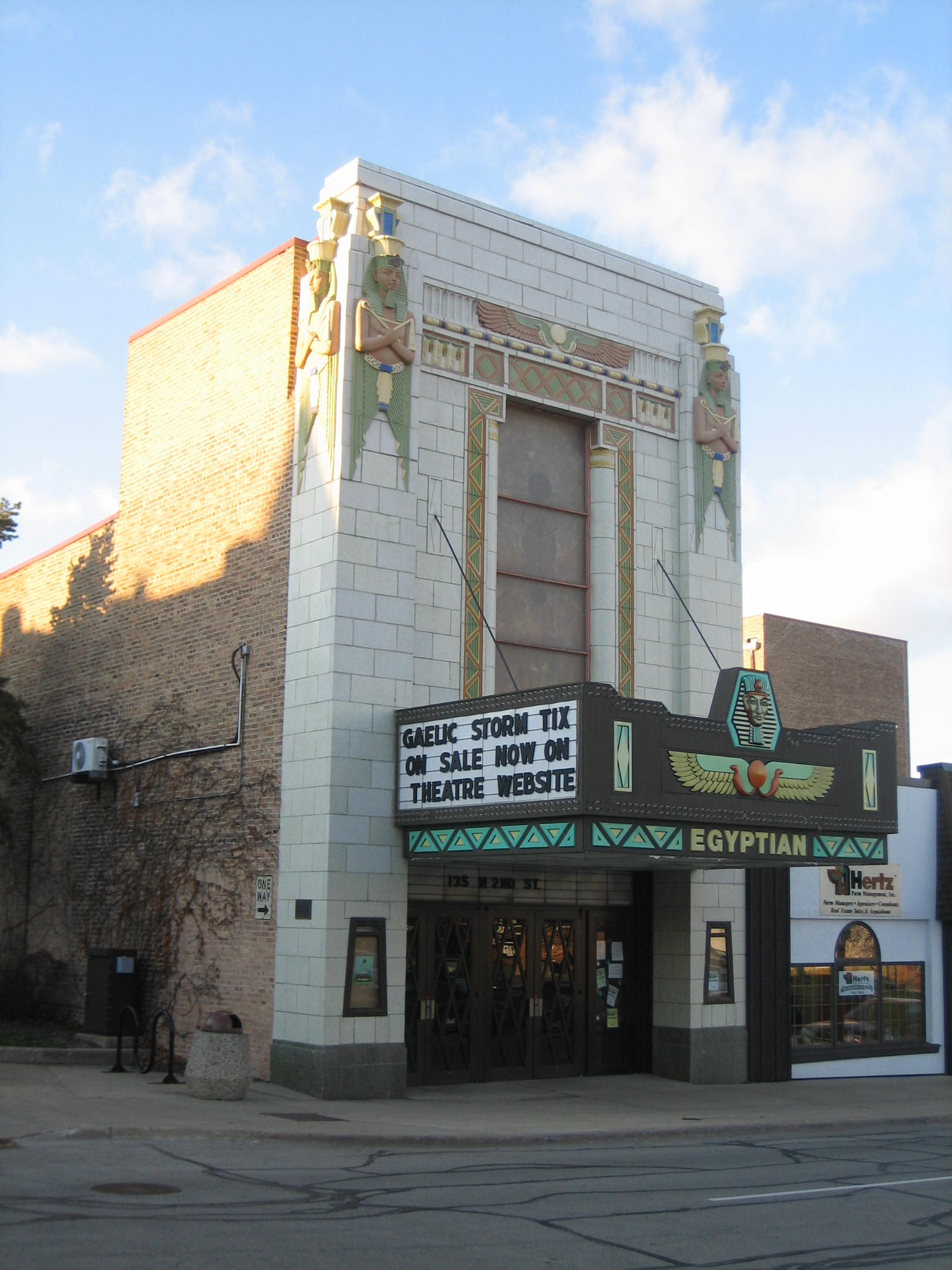 Egyptian Theatre, DeKalb, Illinois. National Register of Historic Places.